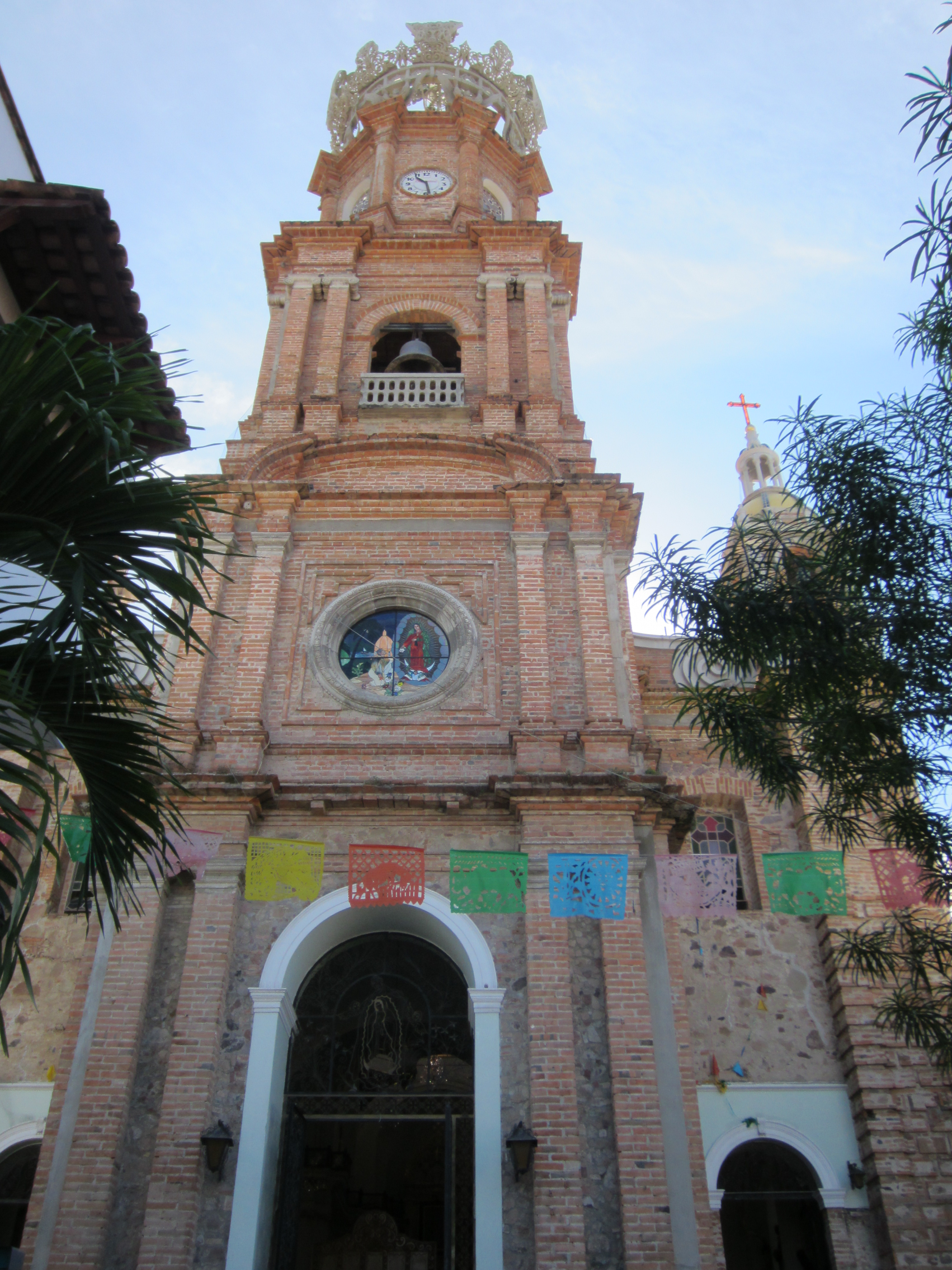 Church of Our Lady of Guadalupe, Puerto Vallarta (2014)